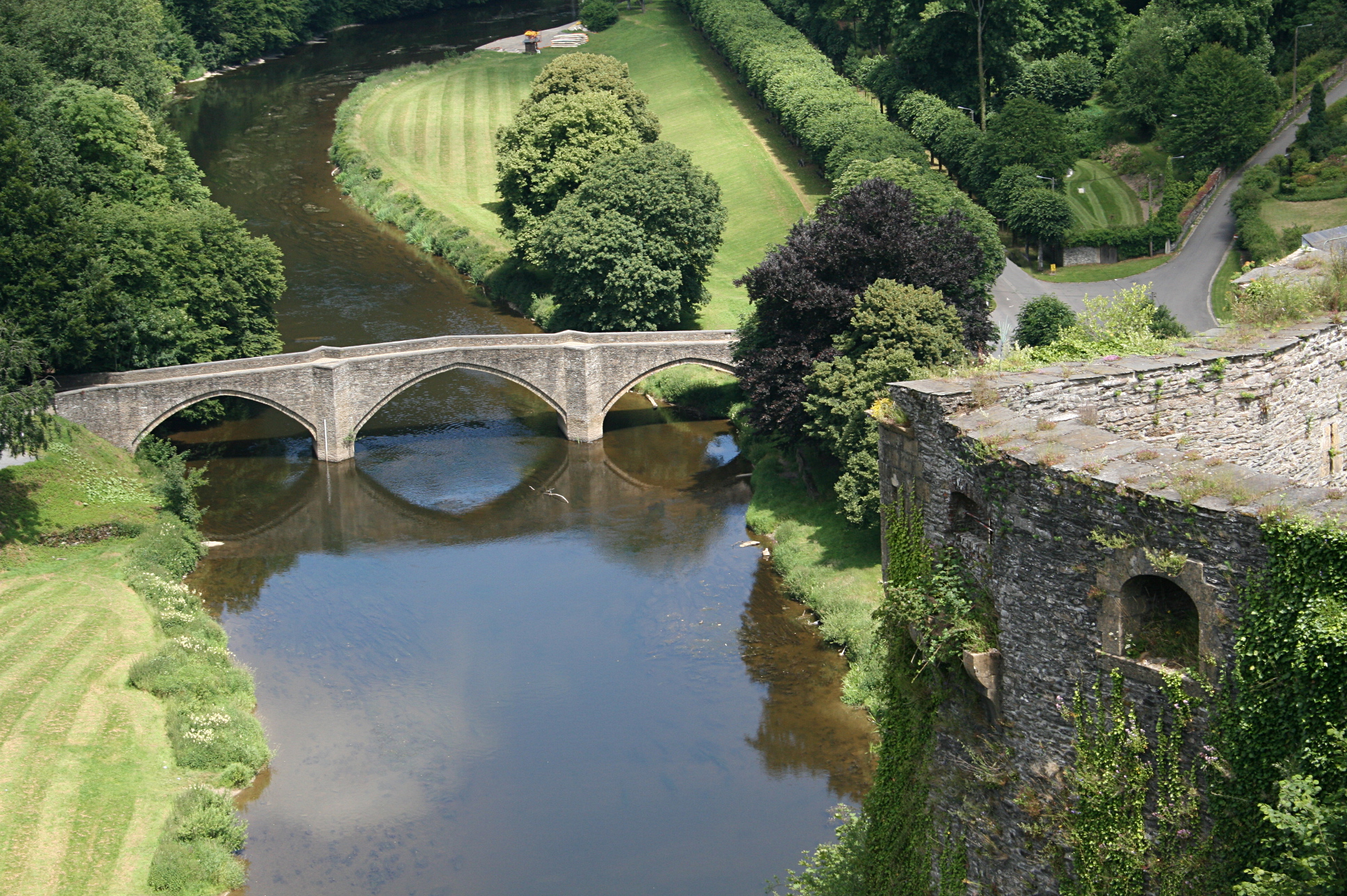 Bouillon (Belgium), the "Corne de Turenne" of the castle and the bridge on the Semois